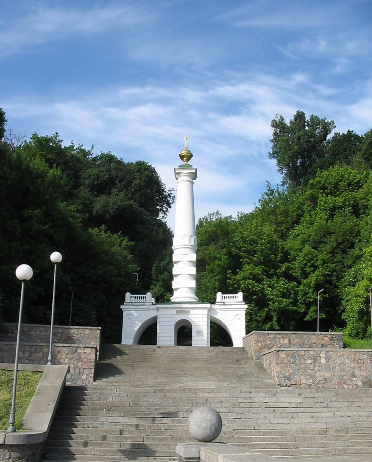 Column commemorating the return of the Magdeburg rights to the city of Kyiv, Ukraine. Architect: Andrij Melensky.